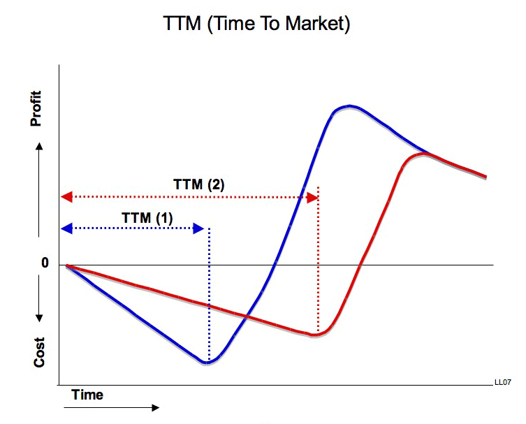 Time To Market. February 2007 Laurens van Lieshout.